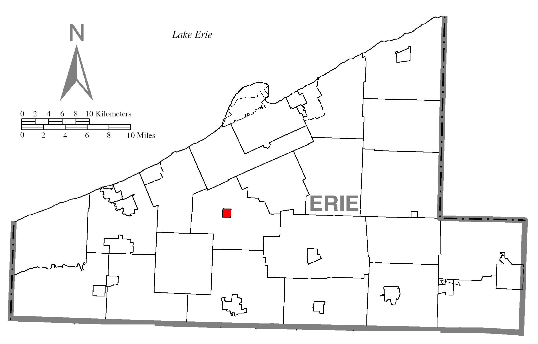 A map of Erie County showing McKean, Pennsylvania (alternate) highlighted on the map.